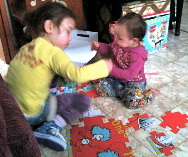 Little girls assembling a puzzle game